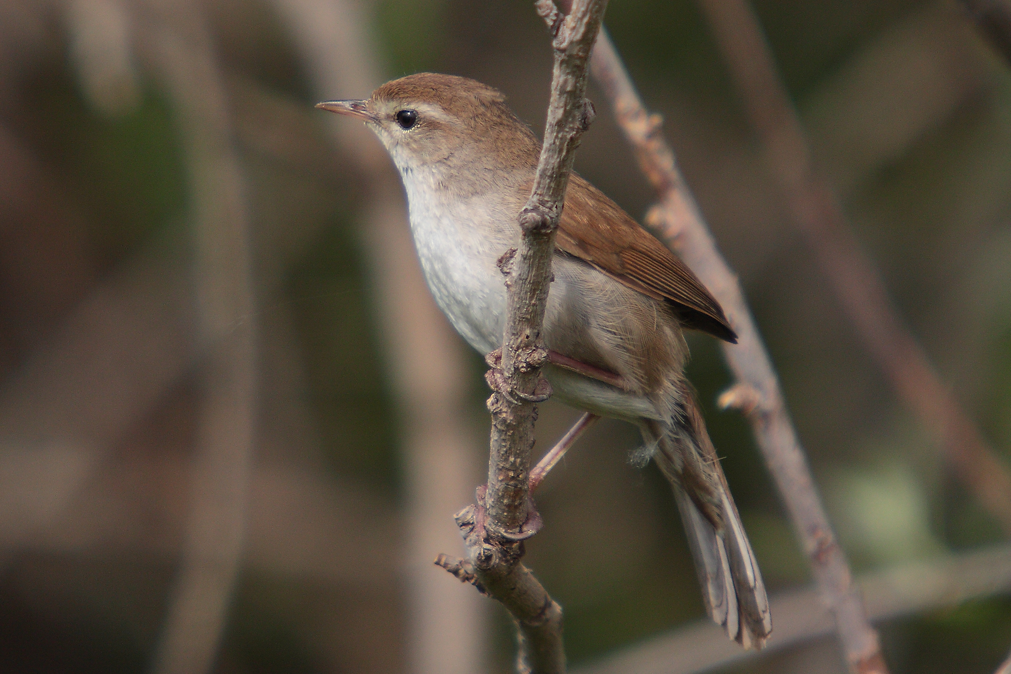 Cetti's warbler by the Kalloni east river, Lesvos, Greece